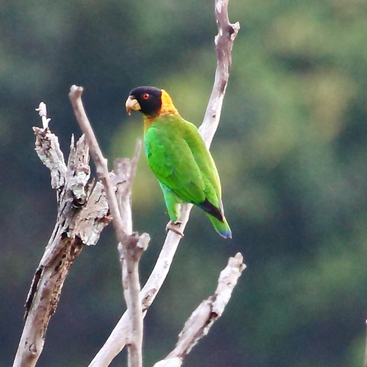 Caica Parrot at Manaus - AM - Brazil